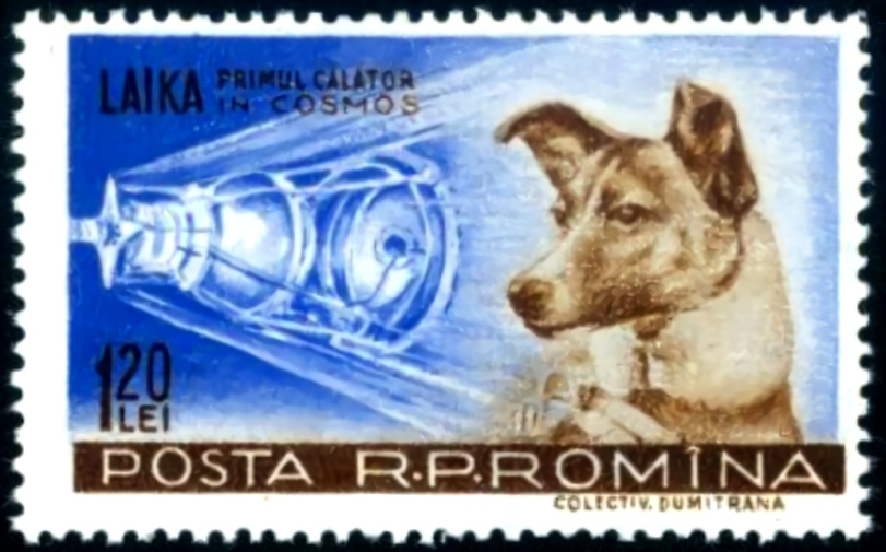 Laika, dog launched into space on stamp from Rumania Posta Romania , 1957, 1,20 Lei Michel stamp catalogue (East-Europe part 4) number: 1685